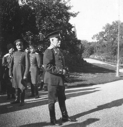 General Ivan Dumbadze waiting for the arrival of Tsar Nicholas II in the southern Crimea